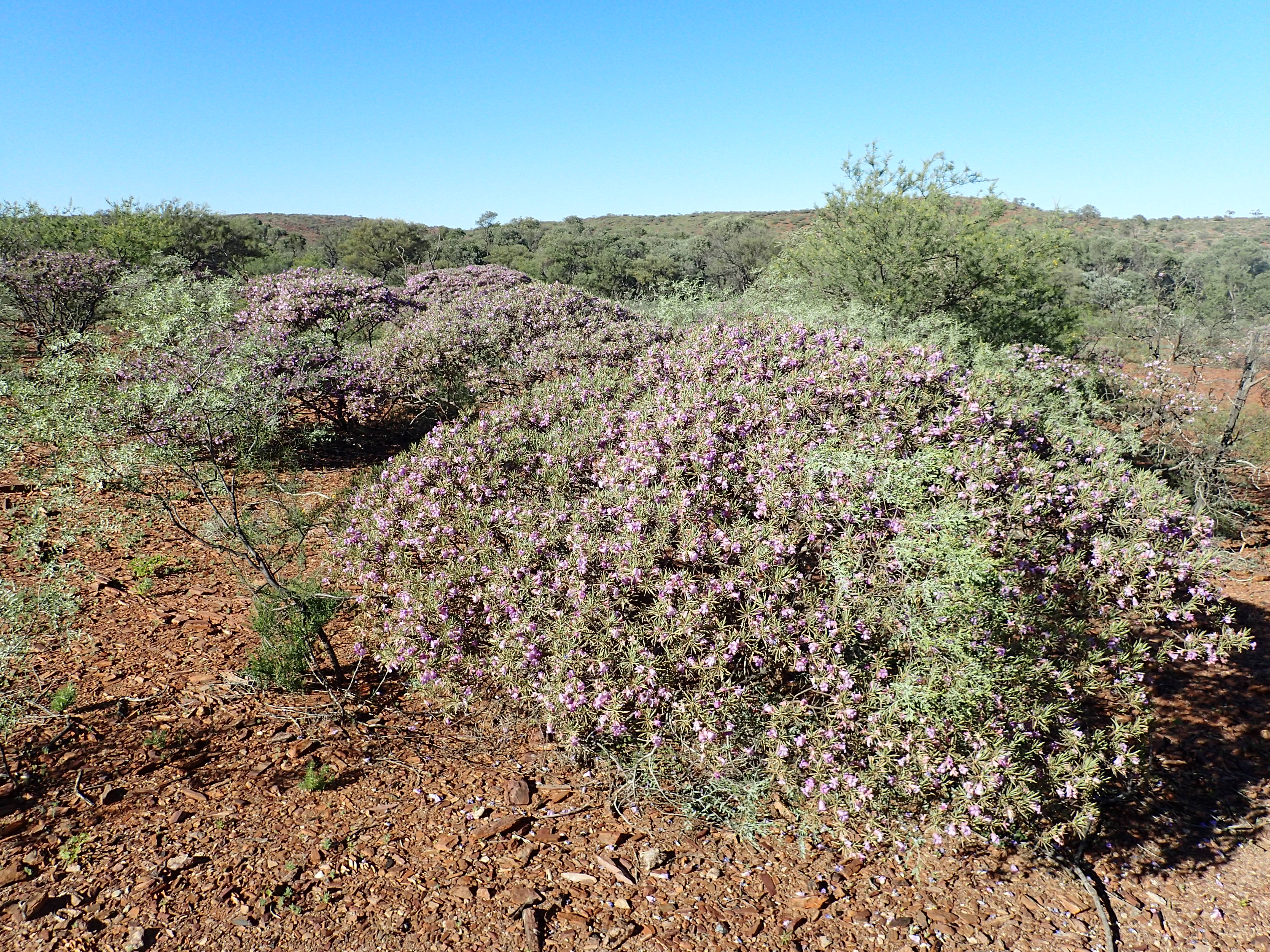 Eremophila phyllopoda phyllopoda growing near "Dooley Downs"